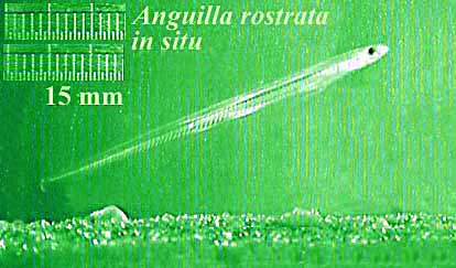 eel larvae of Anguilla rostrata, in situ microscope ecoSCOPE - image: Uwe Kils GFDL